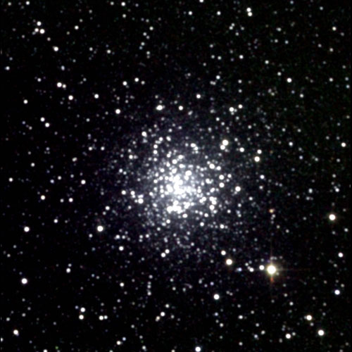 Messier object 009